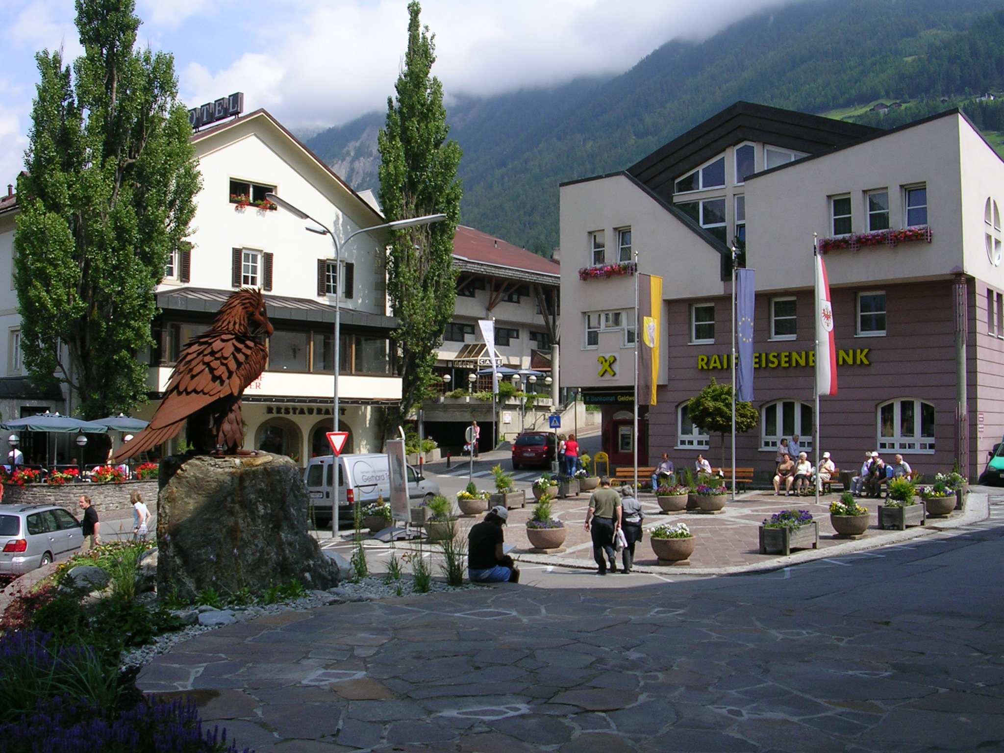 Place Rauter in Matrei in Osttirol